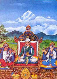 Tibet king Songtsän Gampo (in the middle) and his two wifes, princess Bhrikuti of Nepal and princess Wencheng of China, the two wife bring bouddhism to Tibet.